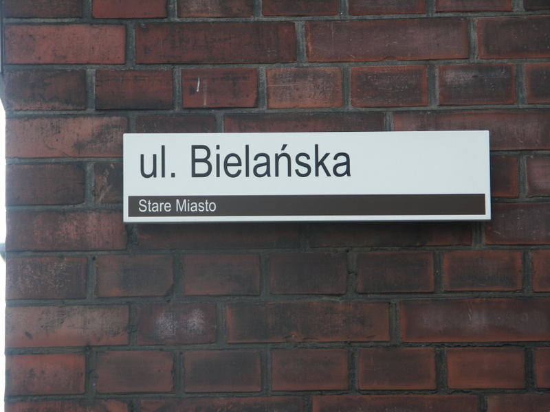 An element of the City Information System in Gdańsk (Old Town).